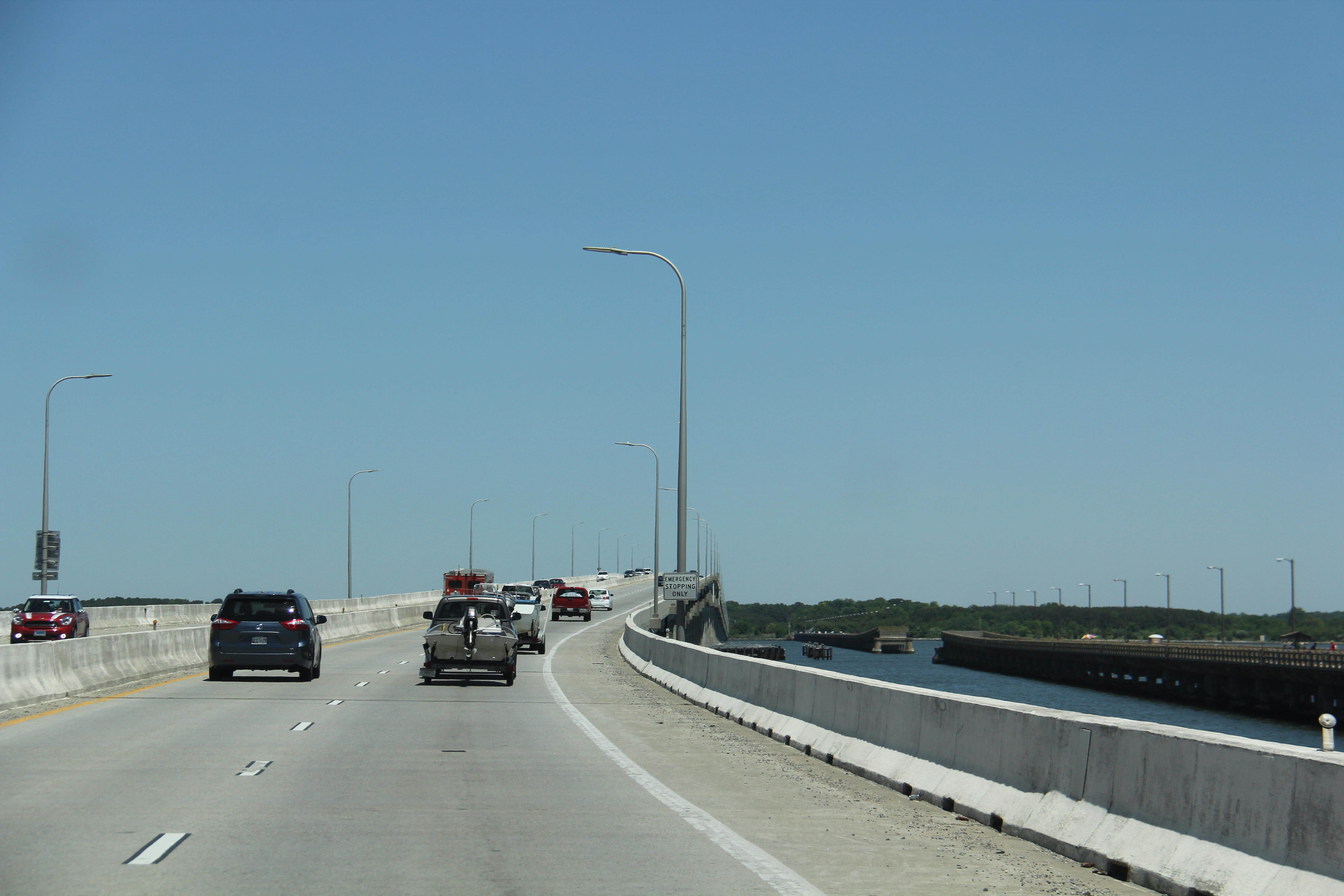 Going Home